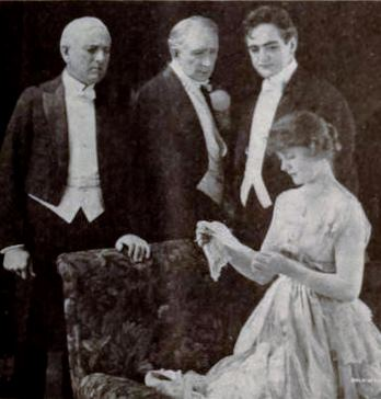 Still from the American comedy film The Cinderella Man (1917) with George Fawcett, Alec B. Francis, Tom Moore, and Mae Marsh, on page 17 of the December 8, 1917 Exhibitors Herald.